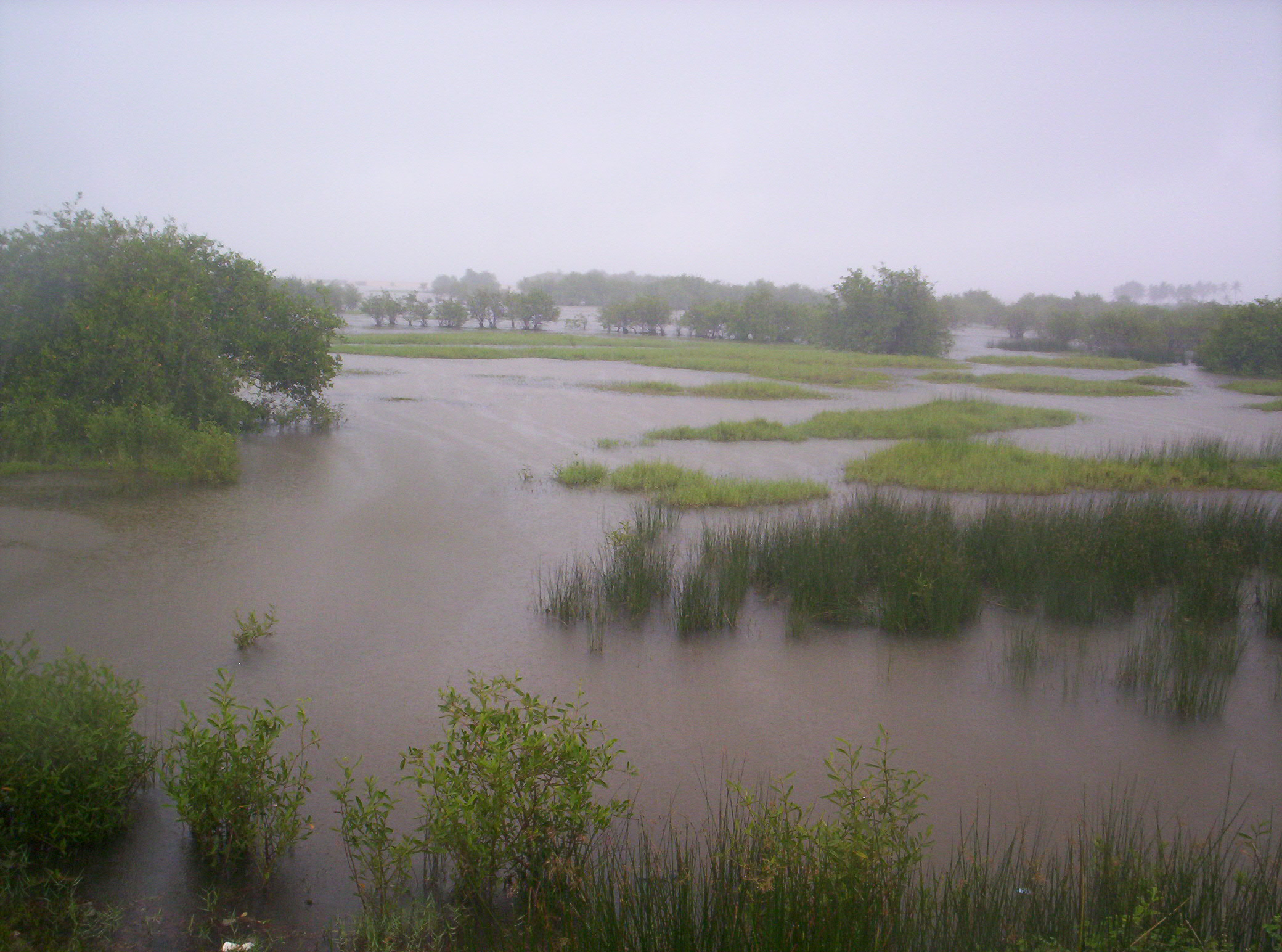 Mangroves abound in Shime in the Keta District of Volta Region